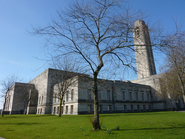 Guildhall and Brangwyn Hall, Swansea